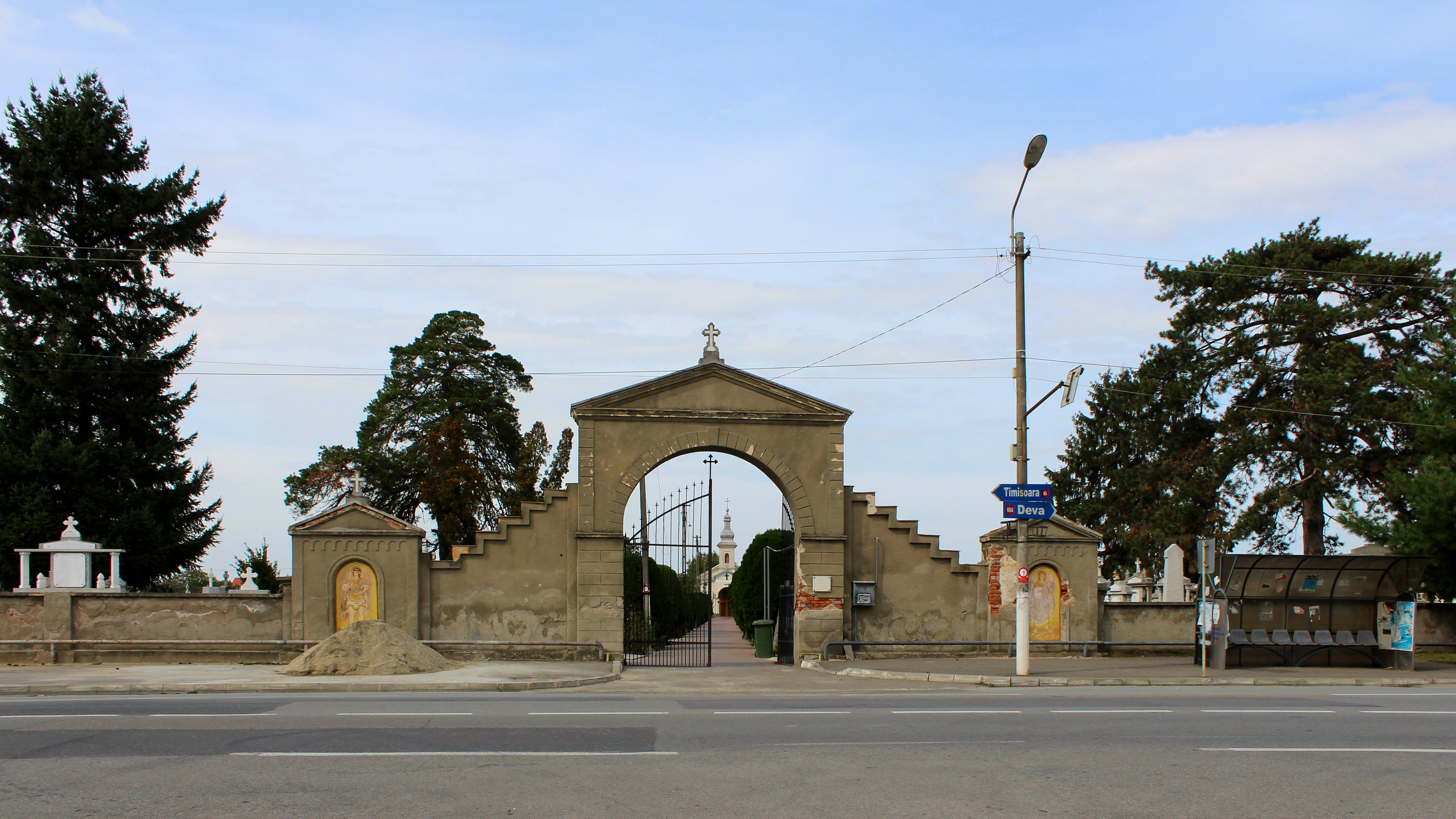 The Orthodox cemetery in Lugoj, Romania